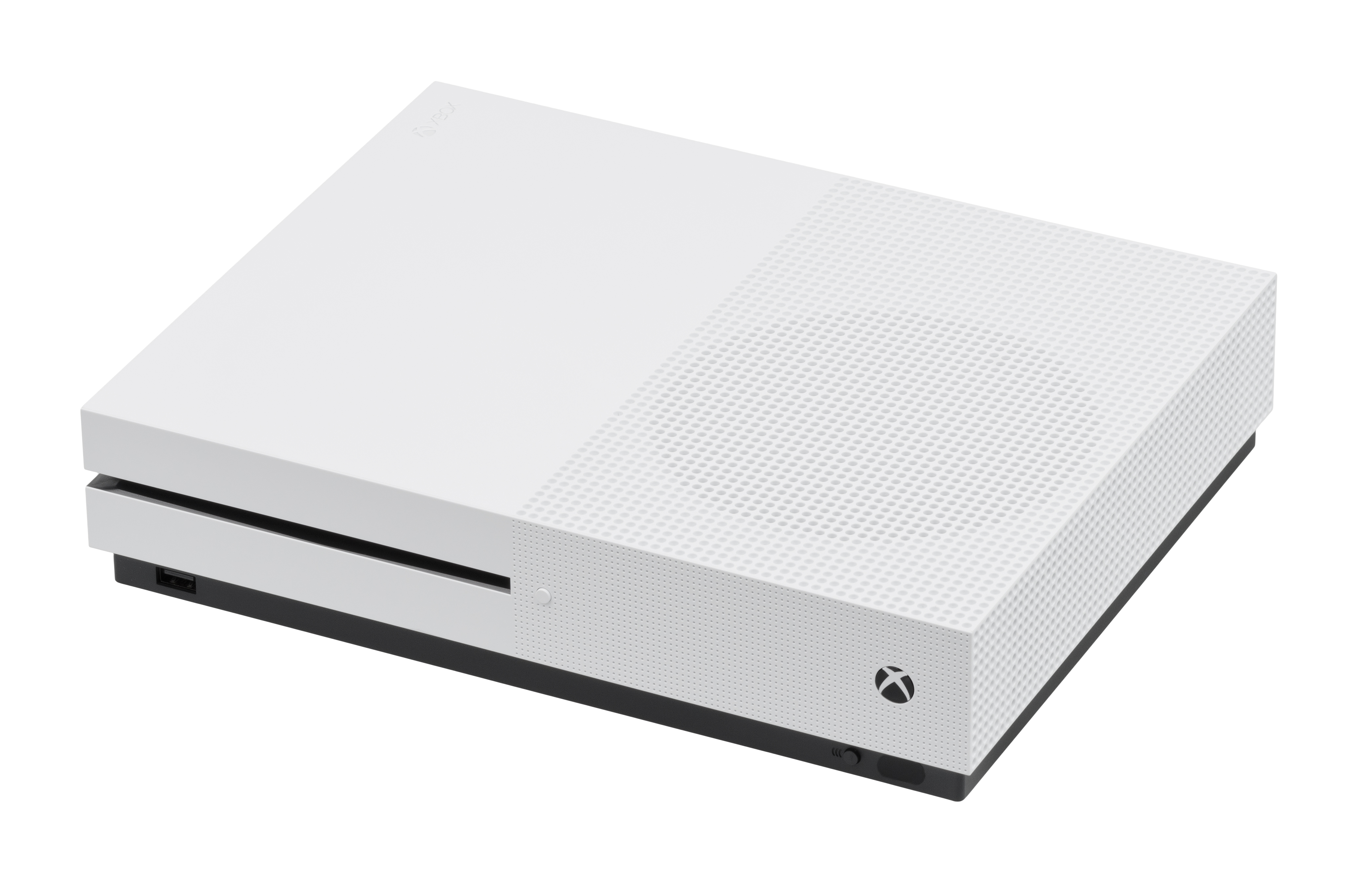 The Xbox One S, a video game console made by Microsoft and released in 2016. The "S" is a slimmer model of the previous One that was first released in 2013. Besides being smaller, the S has new features like HDR and 4K video from streaming and UHD Blu-Ray sources.